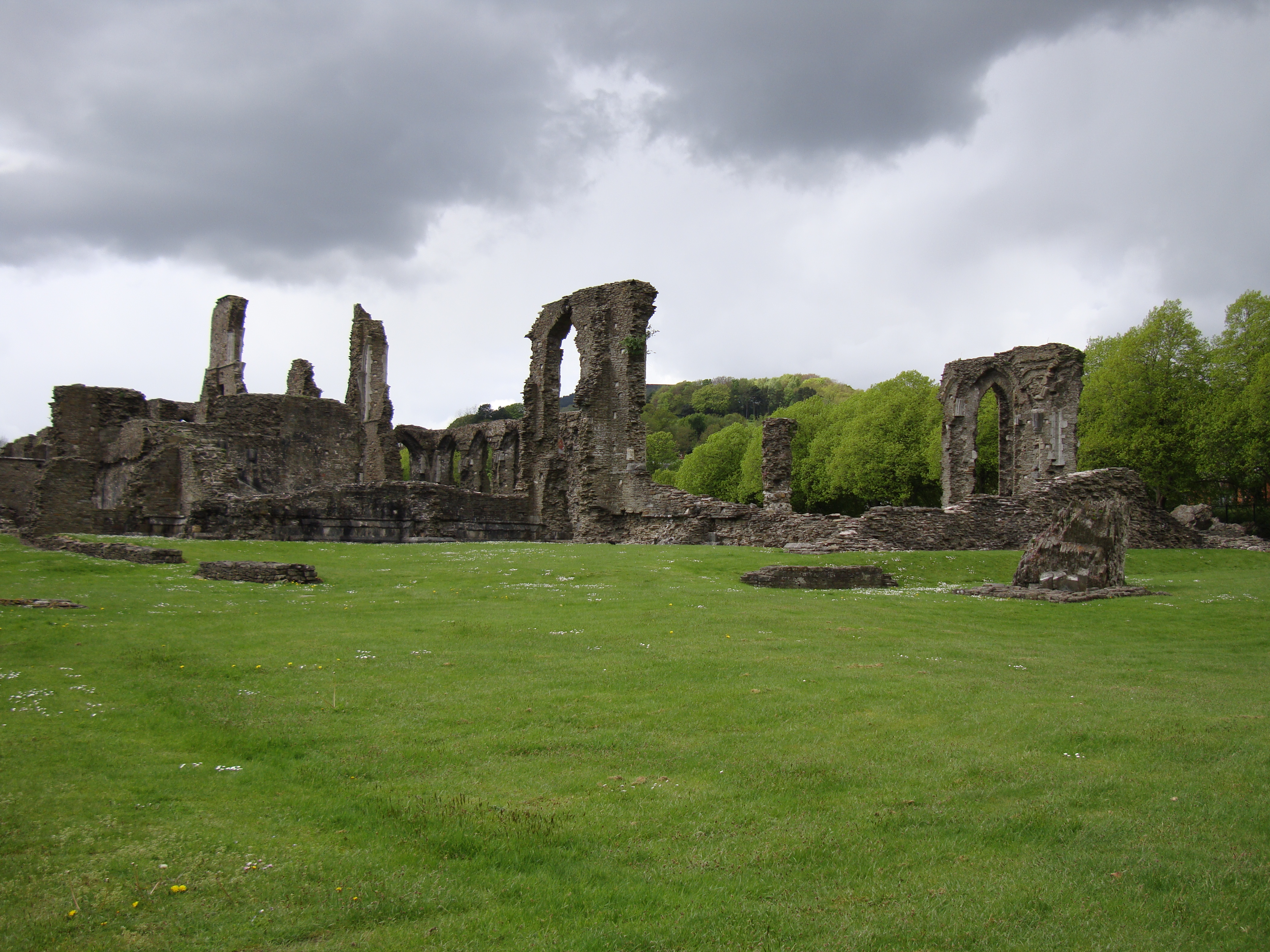 Photograph of Neath Abbey, Glamorgan, Wales